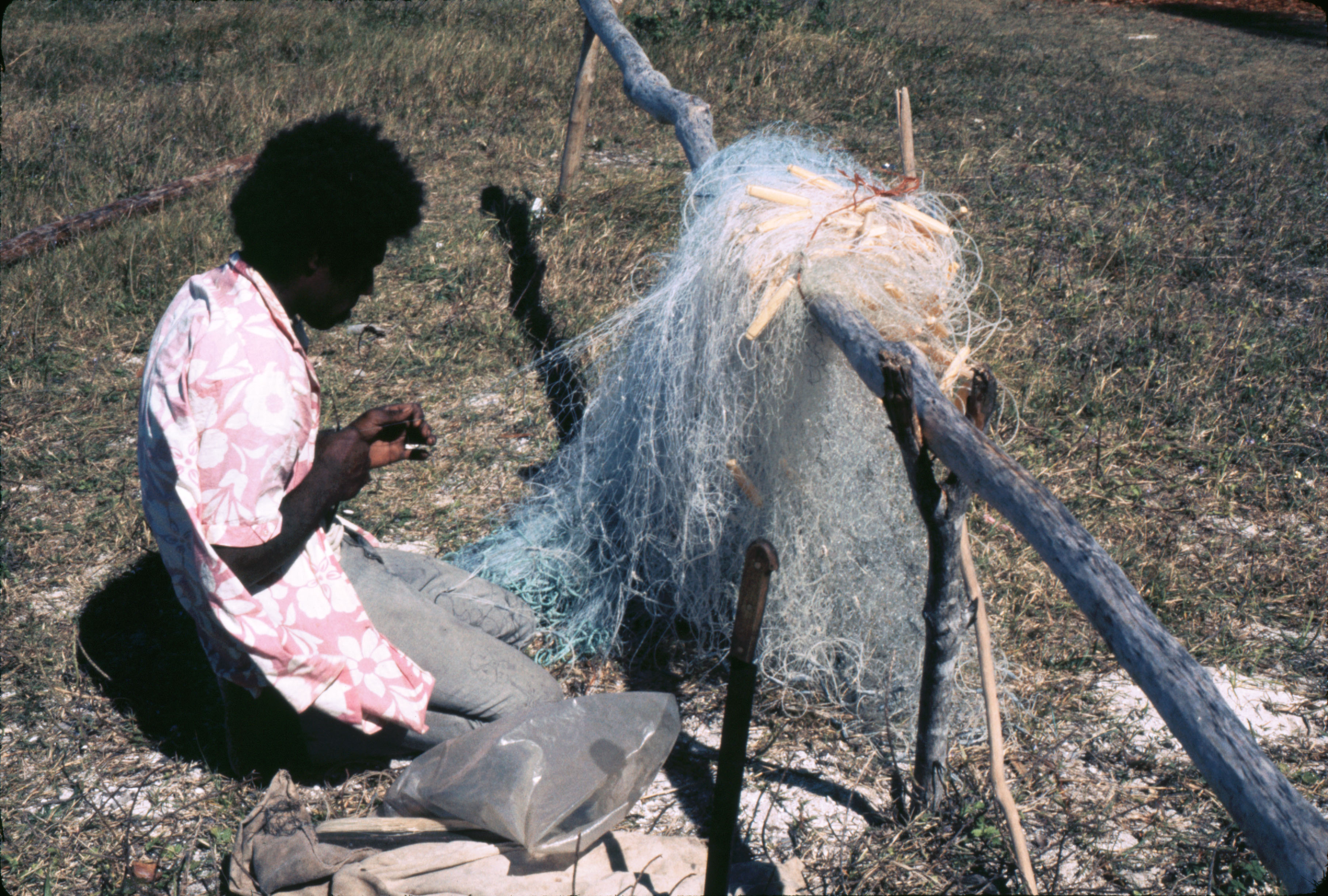 Fisherman mending fishing net; Isle of Pines, near New Caledonia.